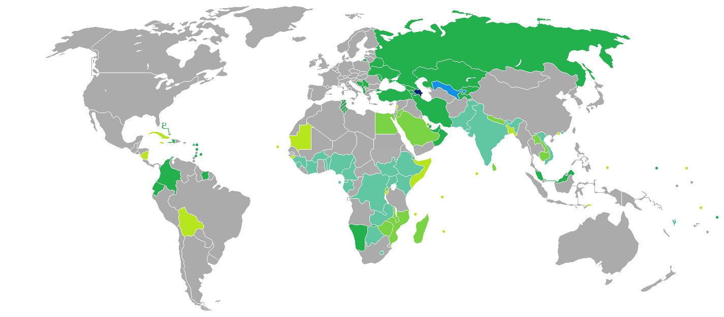 Visa requirements for Azerbaijani citizens Azerbaijan Visa free access Visa on arrival eVisa Visa available both on arrival or online Visa required